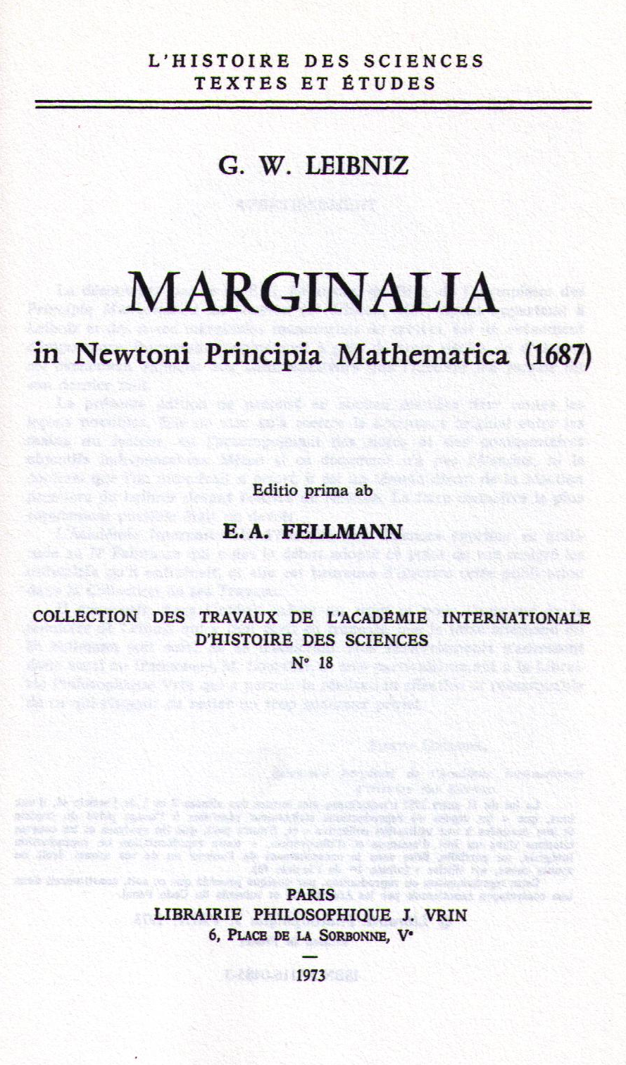 Scan of title page of Emil Fellmann (ed.): G. W. Leibniz, Marginalia in Newtoni Principia Mathematica, Vrin, Paris, 1973